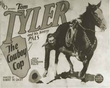 Description: Low-resolution image of poster for FBO feature The Cowboy Cop (1926) starring Tom Tyler. Corporate author (original): Film Booking Offices of America Inc. Source/descendant corporation: RKO Pictures LLC. Contents 1 Public domain explanation 2 Fair use in Film Booking Offices of America 3 Licensing 4 Original upload log Public domain explanation The image was published as an advertisement in the U.S. in 1926. There is no evidence that copyright notice was originally filed on the image, as then required. For instance, this image evidently shows the entire poster and no copyright notice. A search of copyright renewal records for 1953 and 1954 ([1], [2], [3], [4]) reveals the then corporate heir to the corporate author of the work--RKO General--renewed no copyrights to this poster or any collection of posters or any collection of material that might encompass this poster as would have been required to maintain copyright protection, if any. There is no evidence that the corporate heir to the corporate authors of the work--RKO Pictures LLC--claims copyright on the image. Fair use in Film Booking Offices of America If any evidence is disclosed to indicate that this image might be under copyright, it is claimed by Wikipedia editor DCGeist to be used under fair use as: it is a poster of a motion picture put out by a defunct movie studio; it is of much lower resolution than the original (copies made from it will be of very inferior quality); the image is only being used for informational purposes; its inclusion adds significantly to the article because it illustrates the leading genre and one of the leading stars of the studio discussed in the article, as detailed in the article's text.